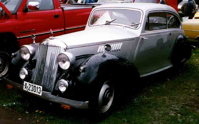 Invicta Black Prince